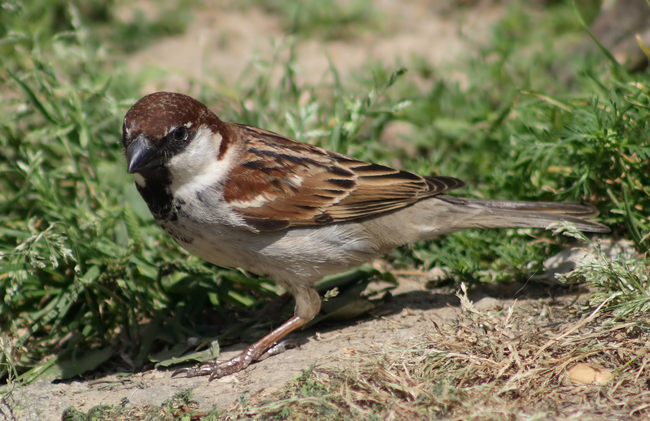 Male Italian Sparrow (Passer italiae). Montecatini Terme, Tuscany.